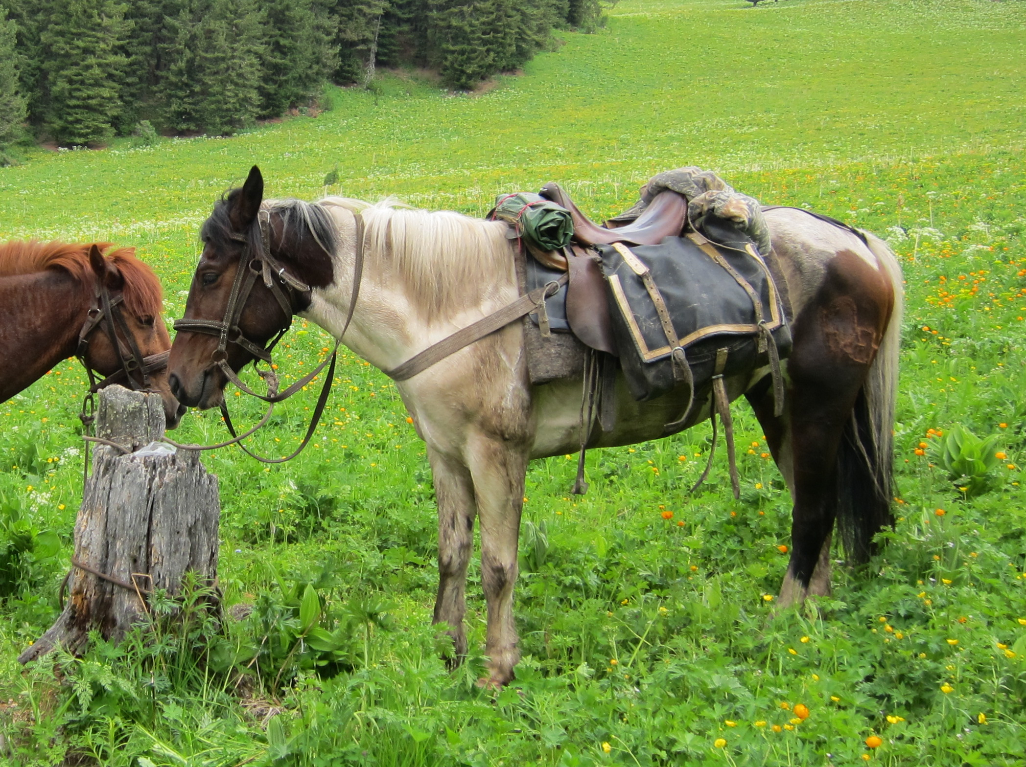 Saddled Altai horse in Chemalsky District of the Altai Republic